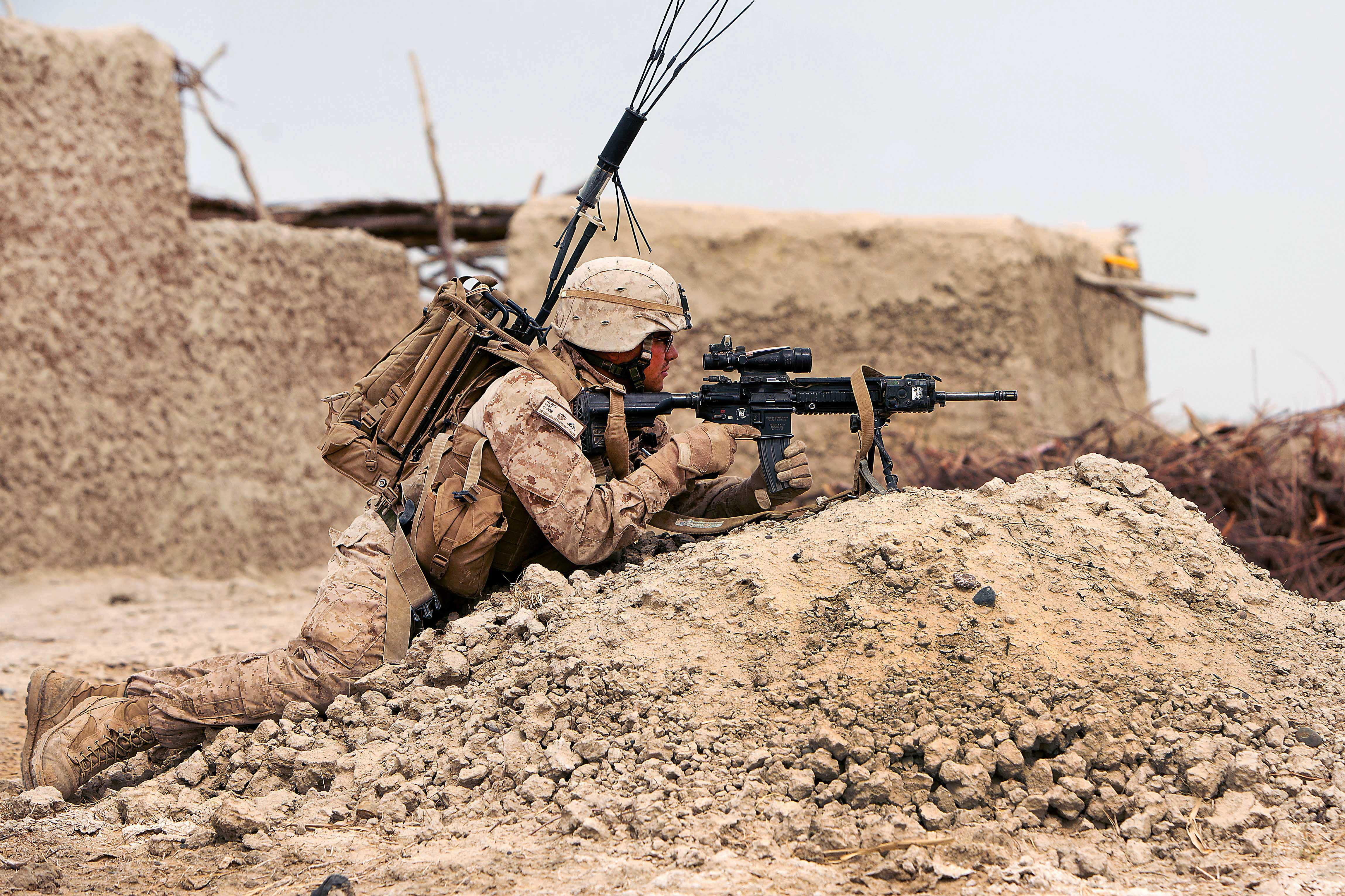 U.S. Marine Corps Lance Cpl. Leobardo Nunez provides security during a census patrol through a village near Khan Neshin, Afghanistan, on March 22, 2012. Nunez is an infantry automatic rifleman assigned to Alpha Company, 1st Light Armored Reconnaissance Battalion.